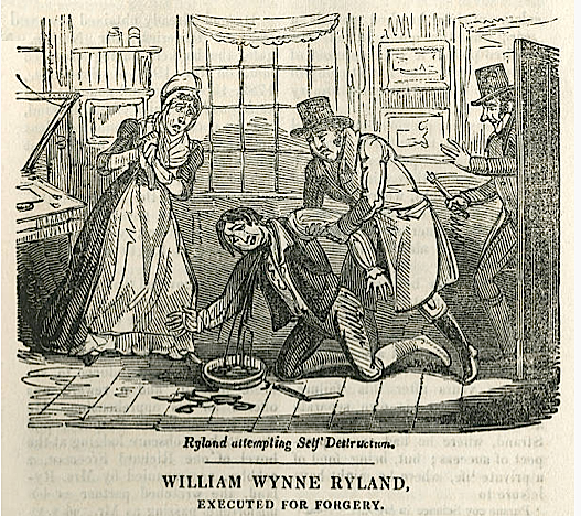 William Wynne Ryland attempting suicide in 1783.